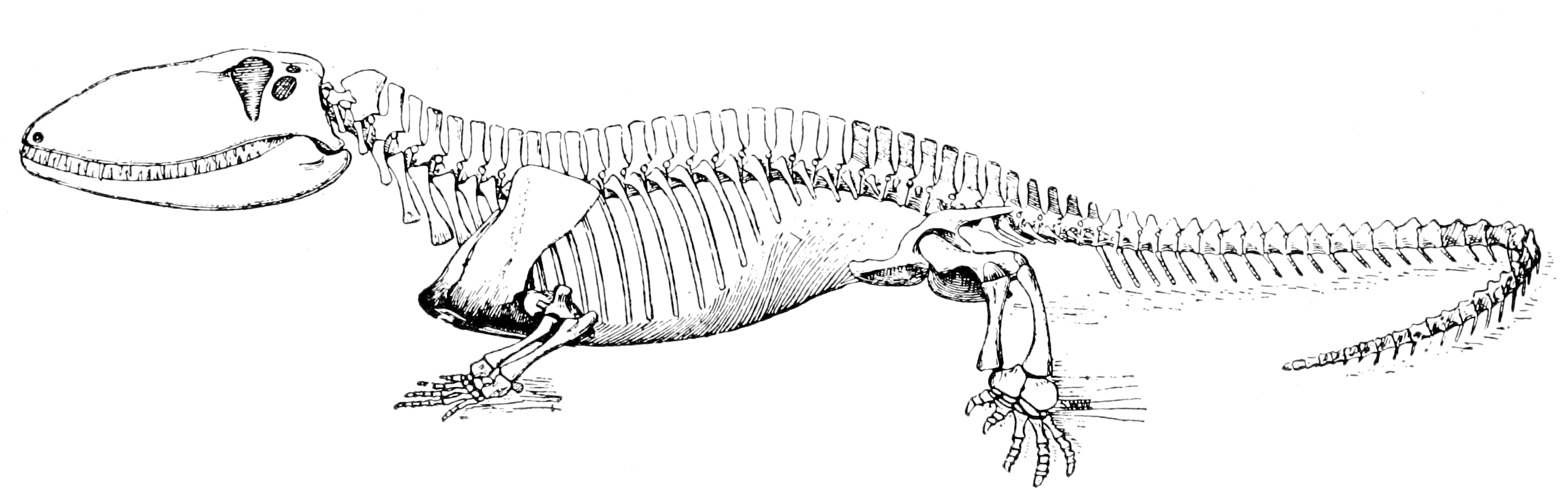 Illustration of Ophiacodon skeleton from The Osteology of the Reptiles (1925)